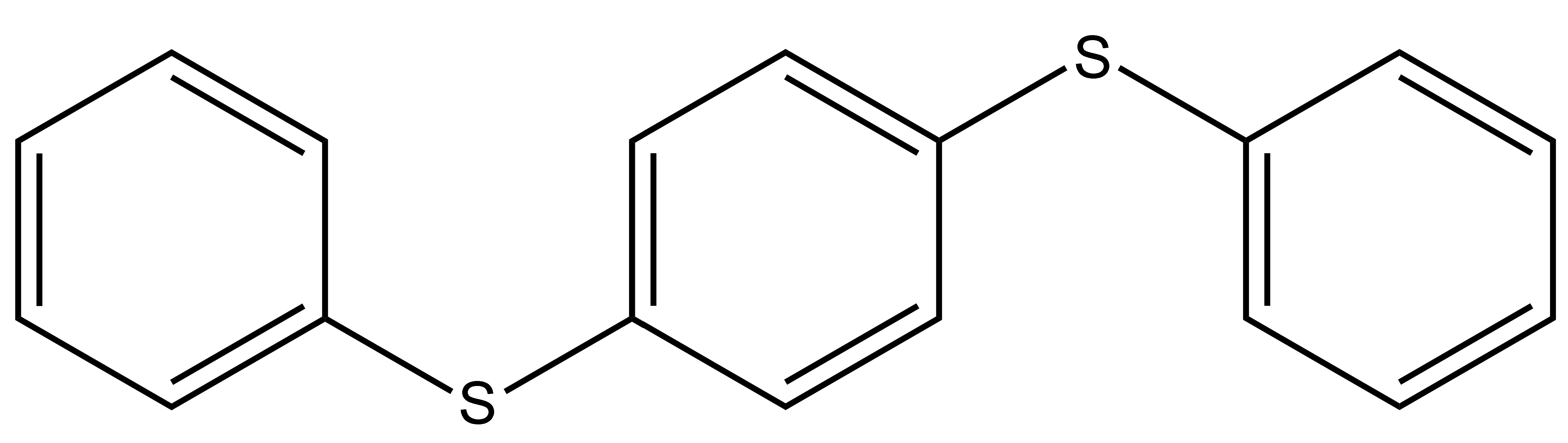 Skeletal formula of 3R2TE Polyphenyl Polythioether